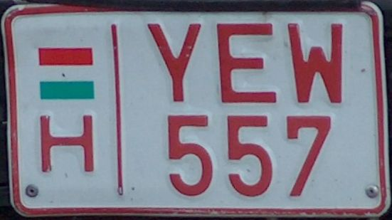 Hungarian license plate for slow vehicles